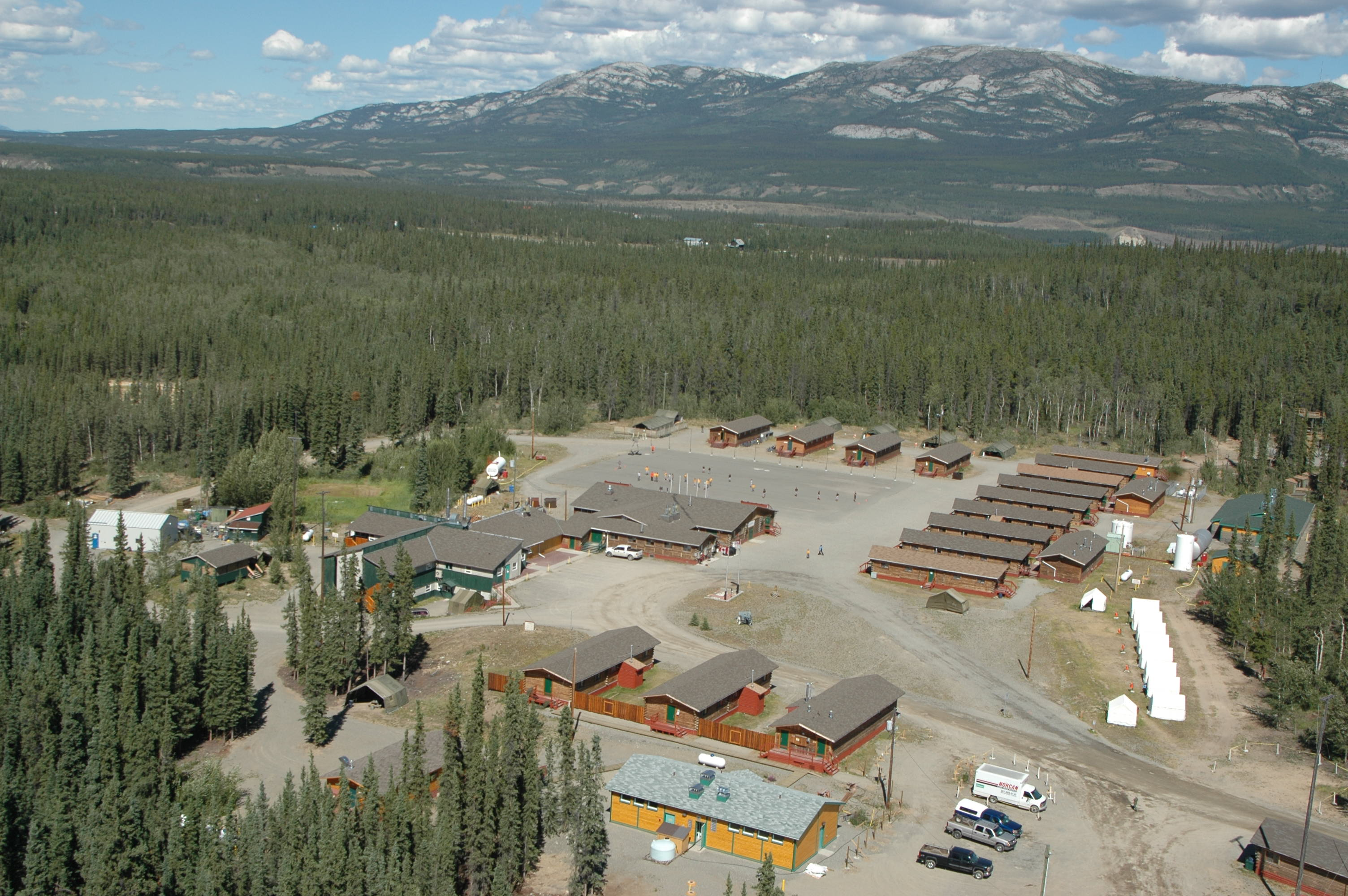 An aerial view of the Whitehorse Cadet Summer Training Centre (WCSTC), Whitehorse, Yukon, Canada.